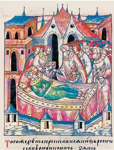 Death of Rostislav Rurikovich (II of Kiev)